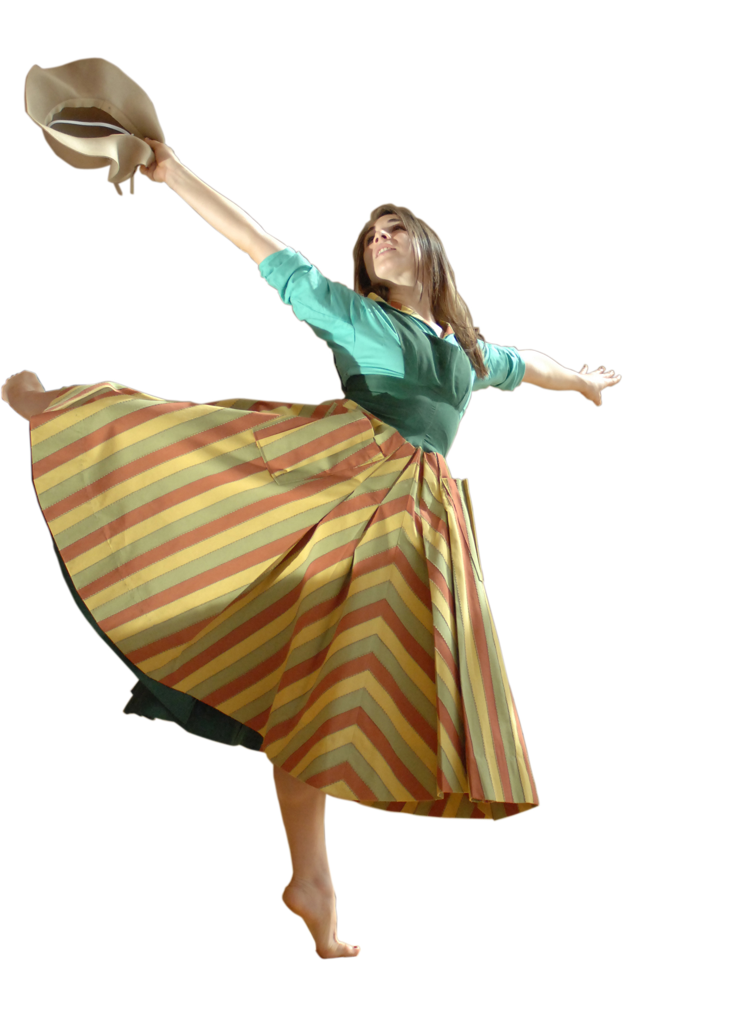 Dust Bowl Ballads, by American Choreographer Sophie Maslow. Image by Paul Gordon Emerson. Dance Kyra Jean Green